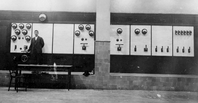 Control room for Bjørkåsen power station.